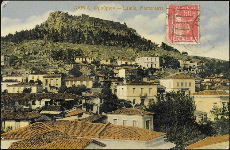 Postcard showing the fortress of Lamia